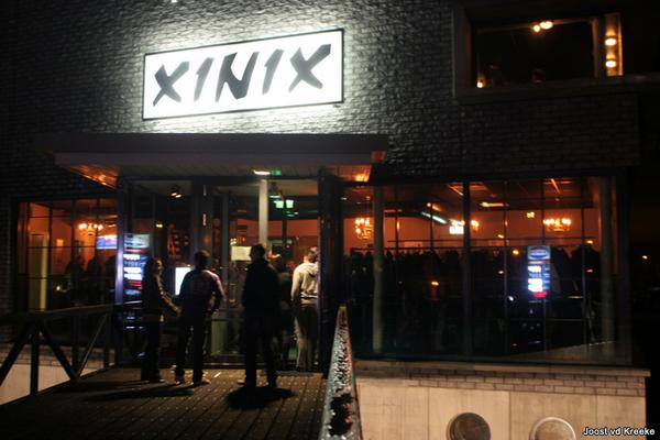 xinix by night